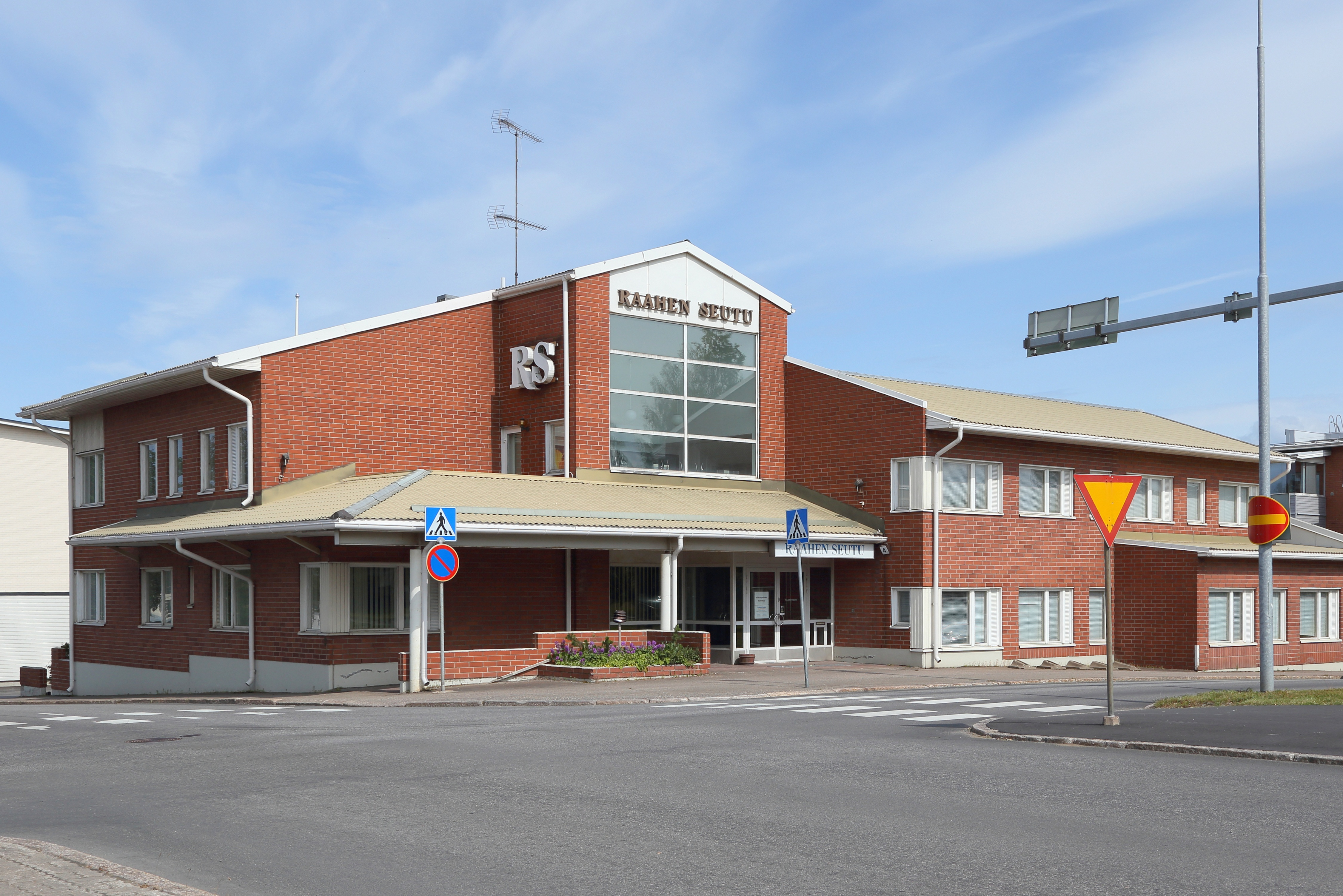 The Raahen Seutu newspaper office building in Raahe.